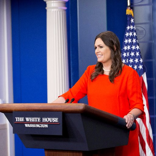 Image of White House Press Secretary Sarah Huckabee Sanders.